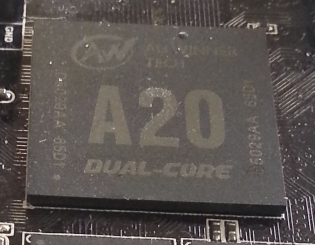 AllWinner A20 SoC in a Cubieboard2.